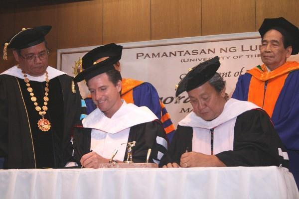 San Francisco City Mayor Gavin Newsom with Manila Mayor Lito Atienza during the renewal of the memorandum of understanding between the City College of San Francisco and the University of the City of Manila (Pamantasan ng Lungsod ng Maynila), with the members of the Board of Regents looking on.